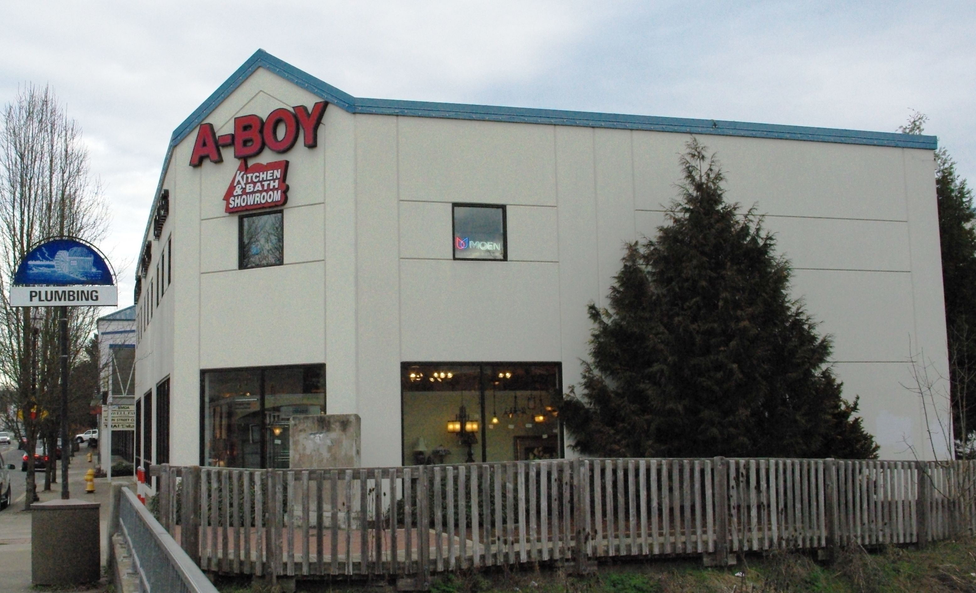 A-Boy Plumbing & Electrical Supply in Tigard, Oregon